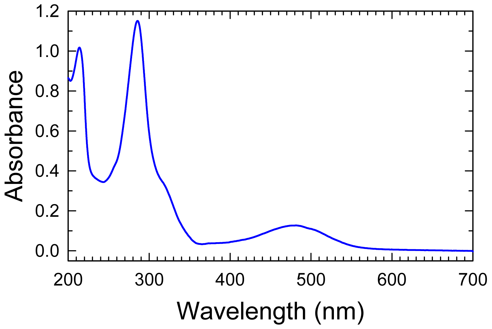 Absorption spectrum of ethidium bromide in water 1x10-4 M; 2mm path length; room temperature. Experimental parameters approximate. Qualitative use only.